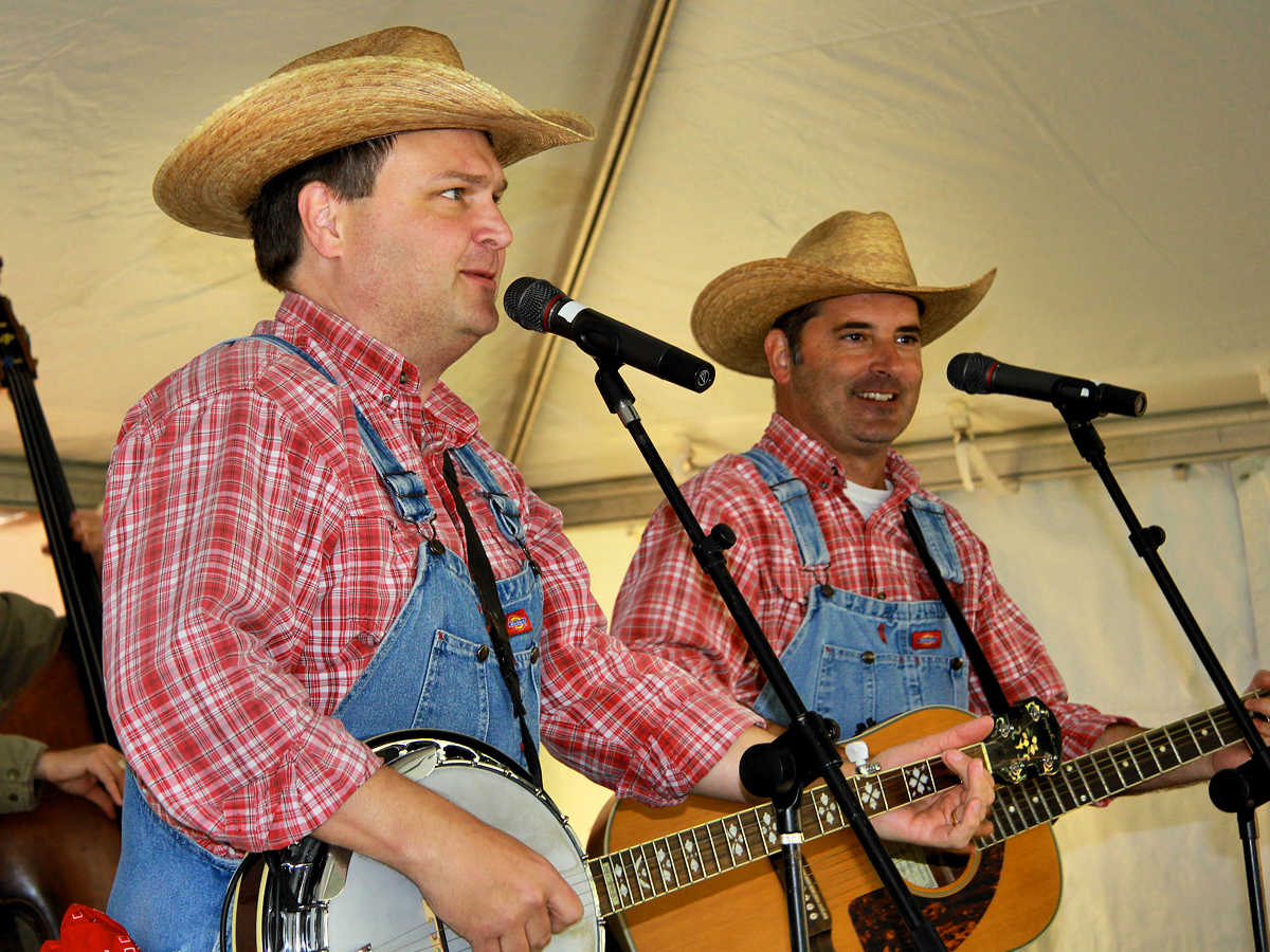 The Biscuit Brothers at the 2012 Texas Book Festival, Austin, Texas, United States.